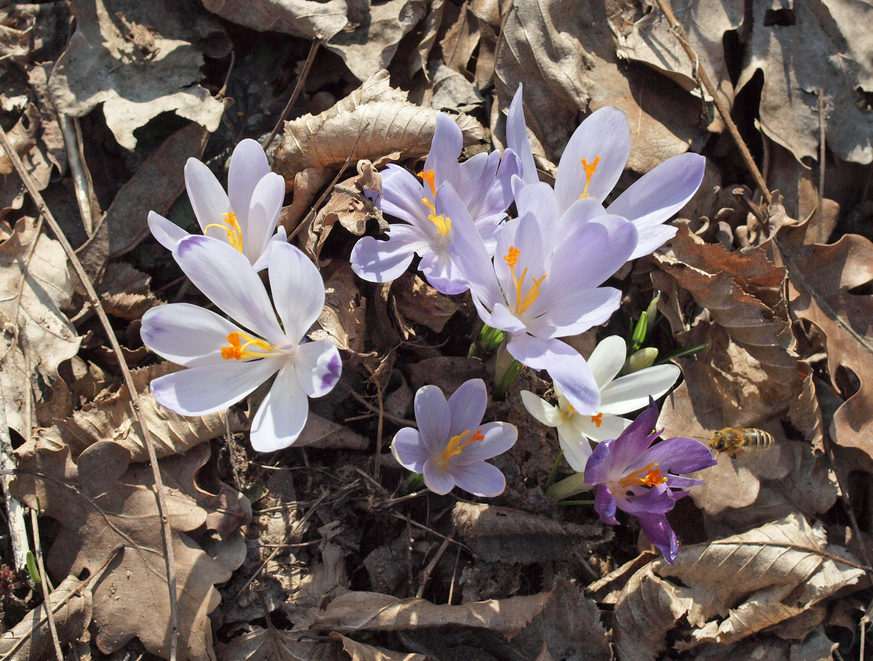 Crocus exiguus, Austria, Styria, Mureck